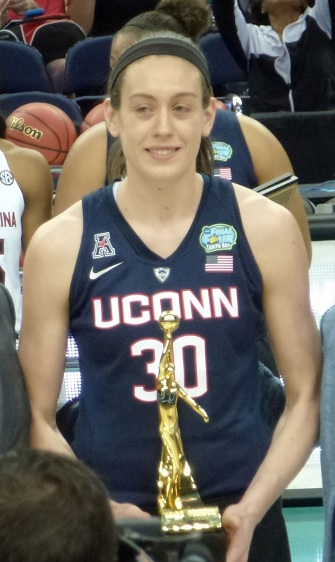 Basketball player Breanna Stewart receiving the Wade Trophy at the 2015 WBCA convention in Tampa Bay, FL